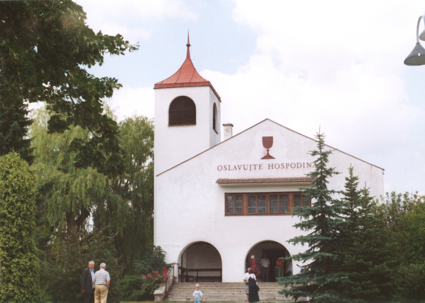 Church in Chotiněves, Ústí nad Labem Region, Czech republic